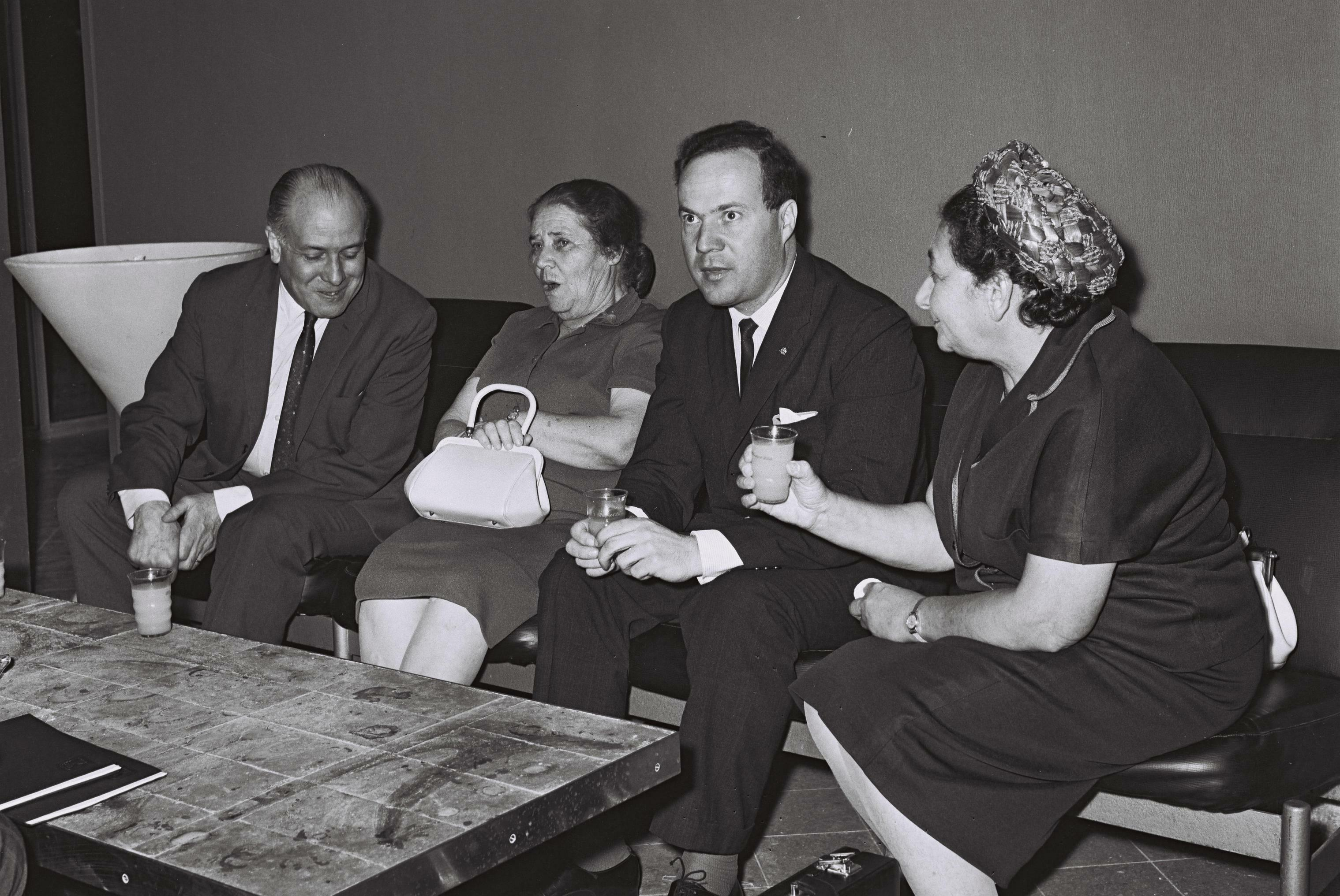 Arrival of Don Thomas Reyes (L) and Eugenio Ballesteros from Chile to Lod Airport, for the Inauguration Ceremony of the New Knesset Building in Jerusalem.